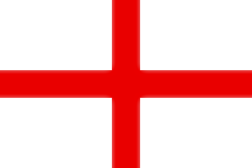 These are my own designs using MS Paint 2015 based upon the descriptions given in the book British flags, their early history, and their development at sea; with an account of the origin of the flag as a national device by Perrin, W. G. (William Gordon), 1874-1931 published in 1922, Chapter IV Flags of Command pp. 73-109. It is the command flag Admiral of the White squadron flown at the top of the masthead in use from 1702 to 1864. In use on board ships in the Kingdom of Great Britain.